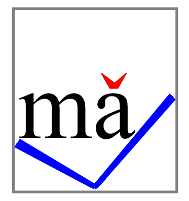 third tone of Mandarin Chinese